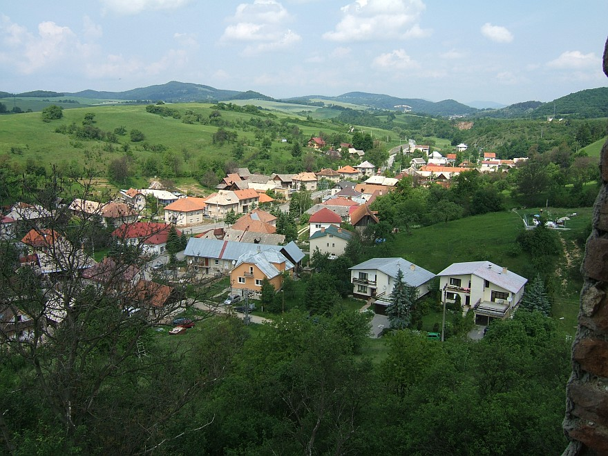 Dolná Mičiná from castel